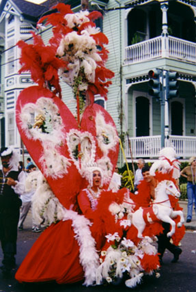 Huge elaborate costume, Mardi Gras Day, Esplanade Avenue at Royal Street, New Orleans Photo by Infrogmation of New Orleans, Mardi Gras Day, 1999